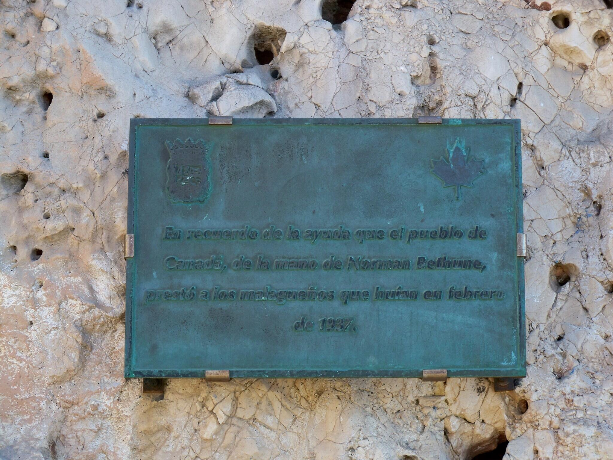 Plaque dedicated to Norman Bethune in Paseo de los Canadienses, Málaga. On the plaque you can read: "In memory to the people of Canada, in the person of Norman Bethune, for the assistance to people of Malaga fleeing in February 1937."